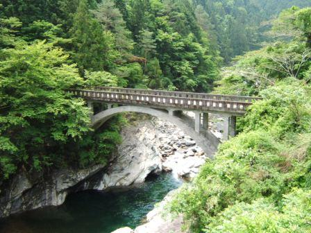 Photograph of Douzan-river at Besshiyama Niihama-city,Japan.Douzan means in Japanese,copper mine. 愛媛県新居浜市別子山の銅山川です。